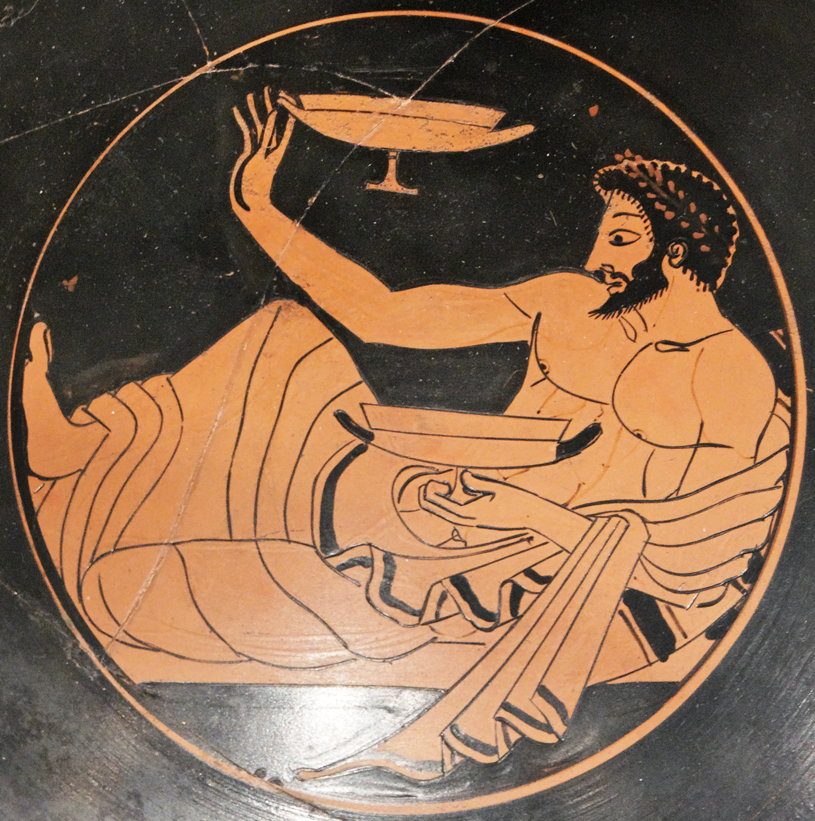 Banqueter playing the kottabos (drinking game), tondo of an Attic red-figure kylix.